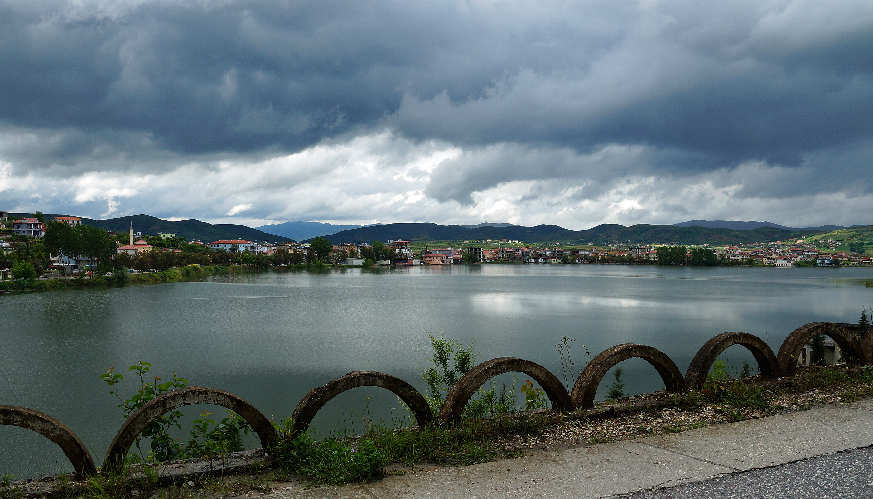 City of Belsh in Central Albania at the shores of Lake Belsh